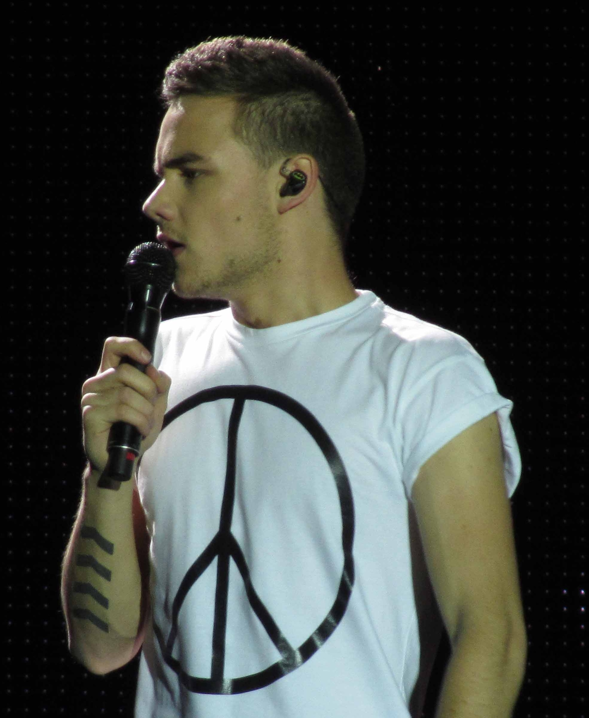 Liam Payne on the Take Me Home Tour at the SECC, Glasgow on 27 February 2013